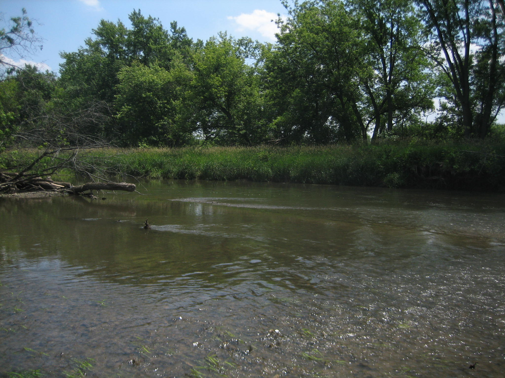 Kishwaukee River State Fish and Wildlife Area, near Kirkland, Illinois in DeKalb County, Illinois, USA.